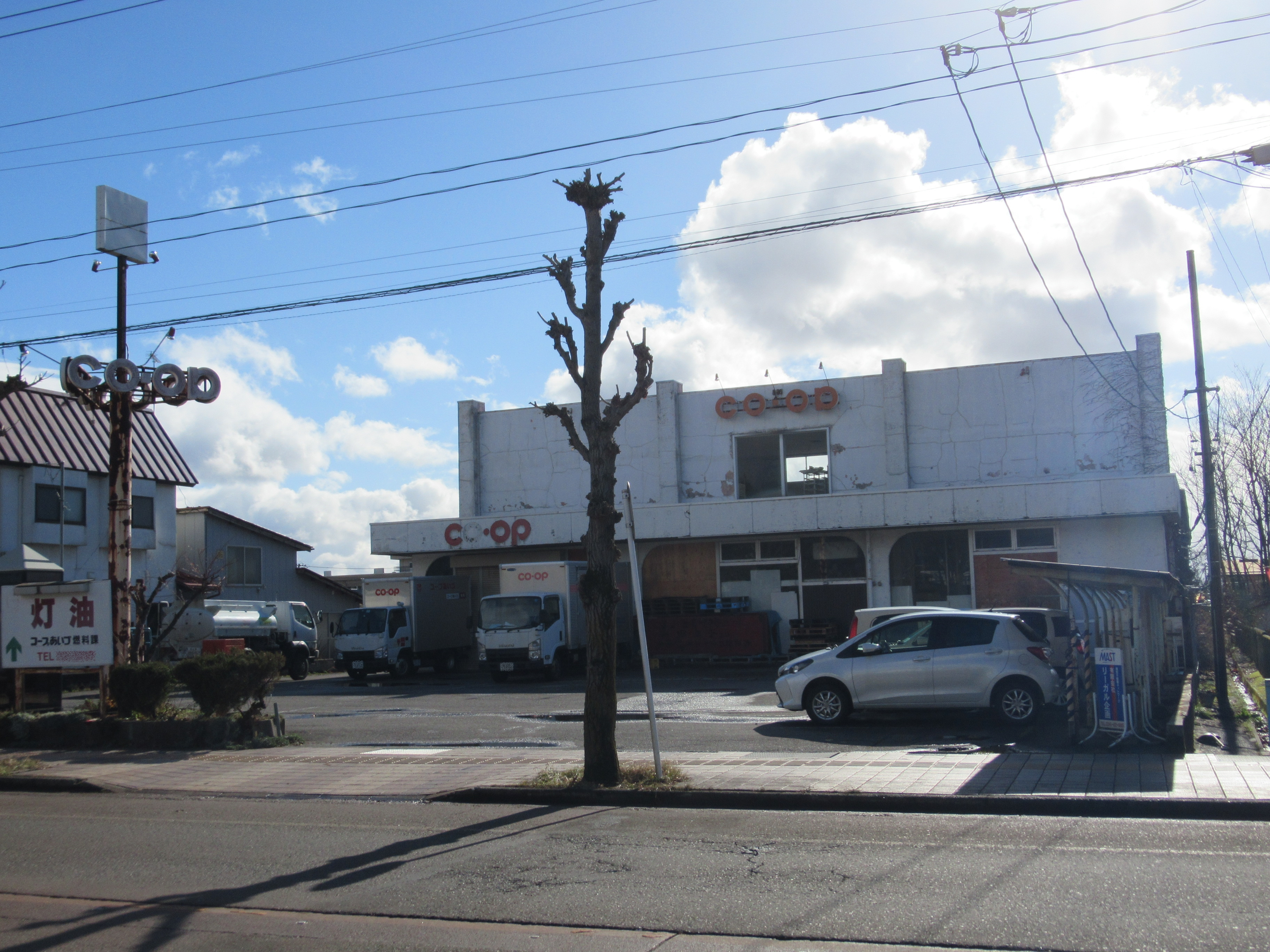 December 24, 2018 Photographer